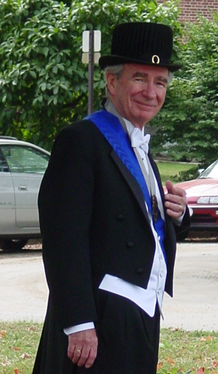 Professor McClearn on the occasion of his receiving an honorary degree from Jonkoping University, Sweden, in 2002